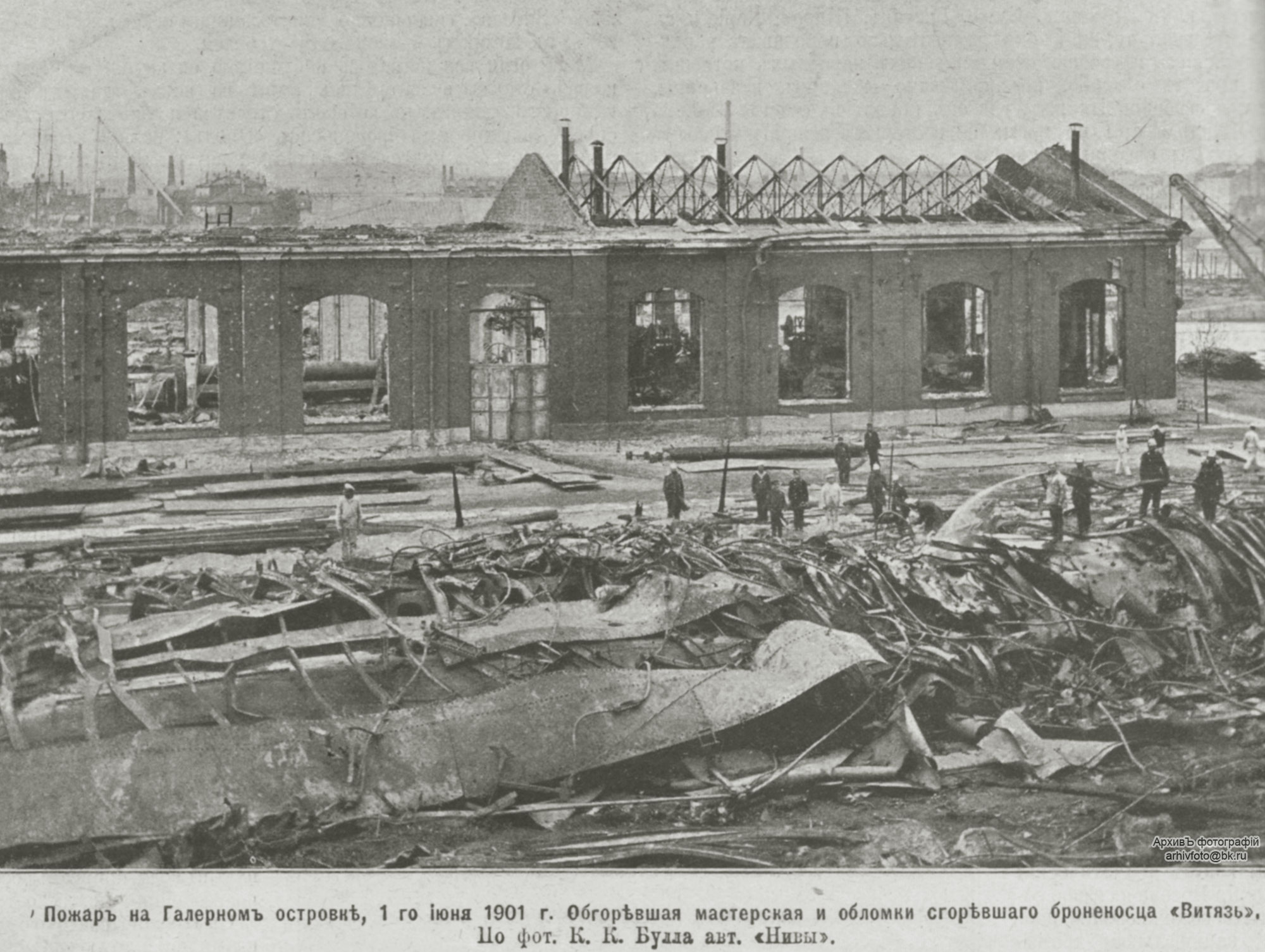 The frame of the Imperial Russian first rank protected cruiser «Vityaz'» that was burned down in a fire.